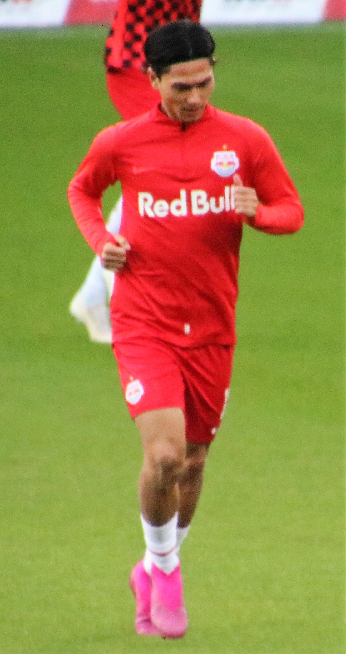 Austrian Bundesliga 12th round